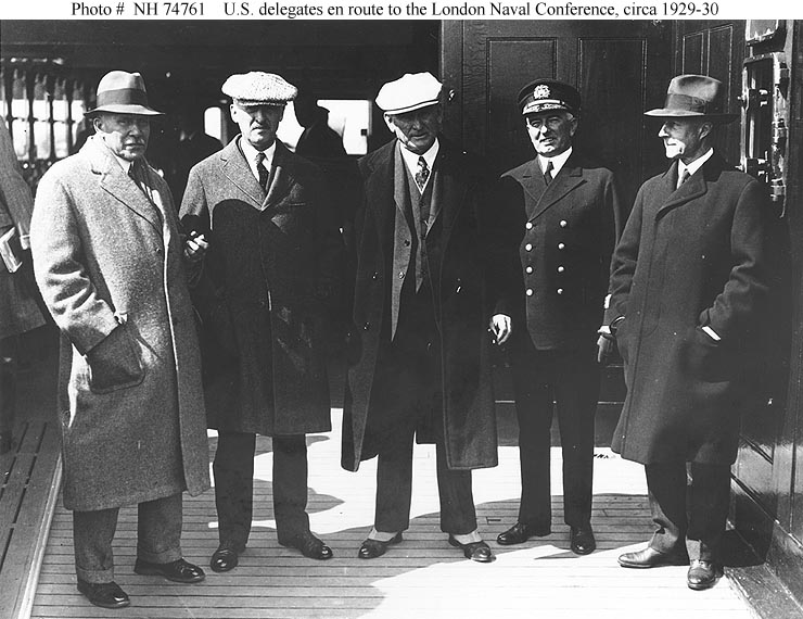 Members of the United States delegation on board the passenger liner George Washington, while en route to the conference, January 1930.